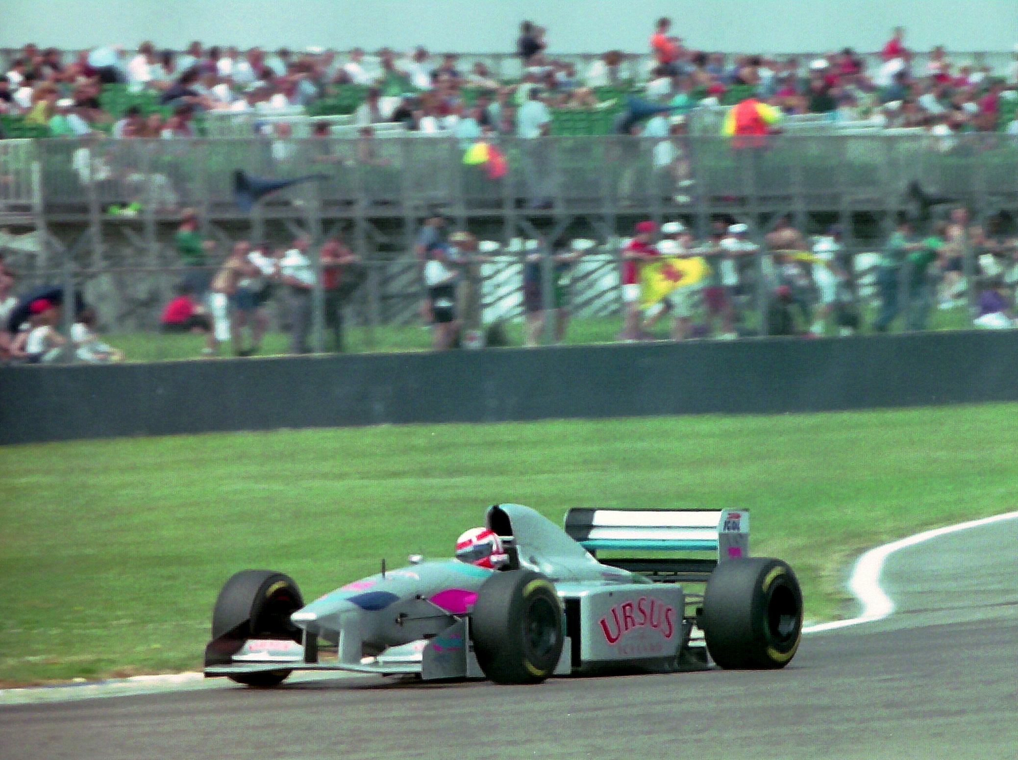 Paul Belmondo - Pacific PR01 at the 1994 British Grand Prix